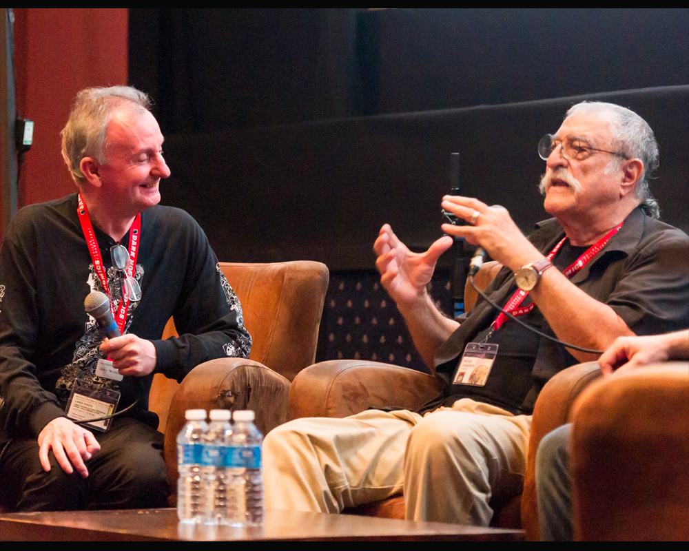 Interview with Sergio Aragonés in the main theatre at the Brewery Arts Centre, during the Lakes International Comic Art Festival 2017 in Kendal, Cumbria